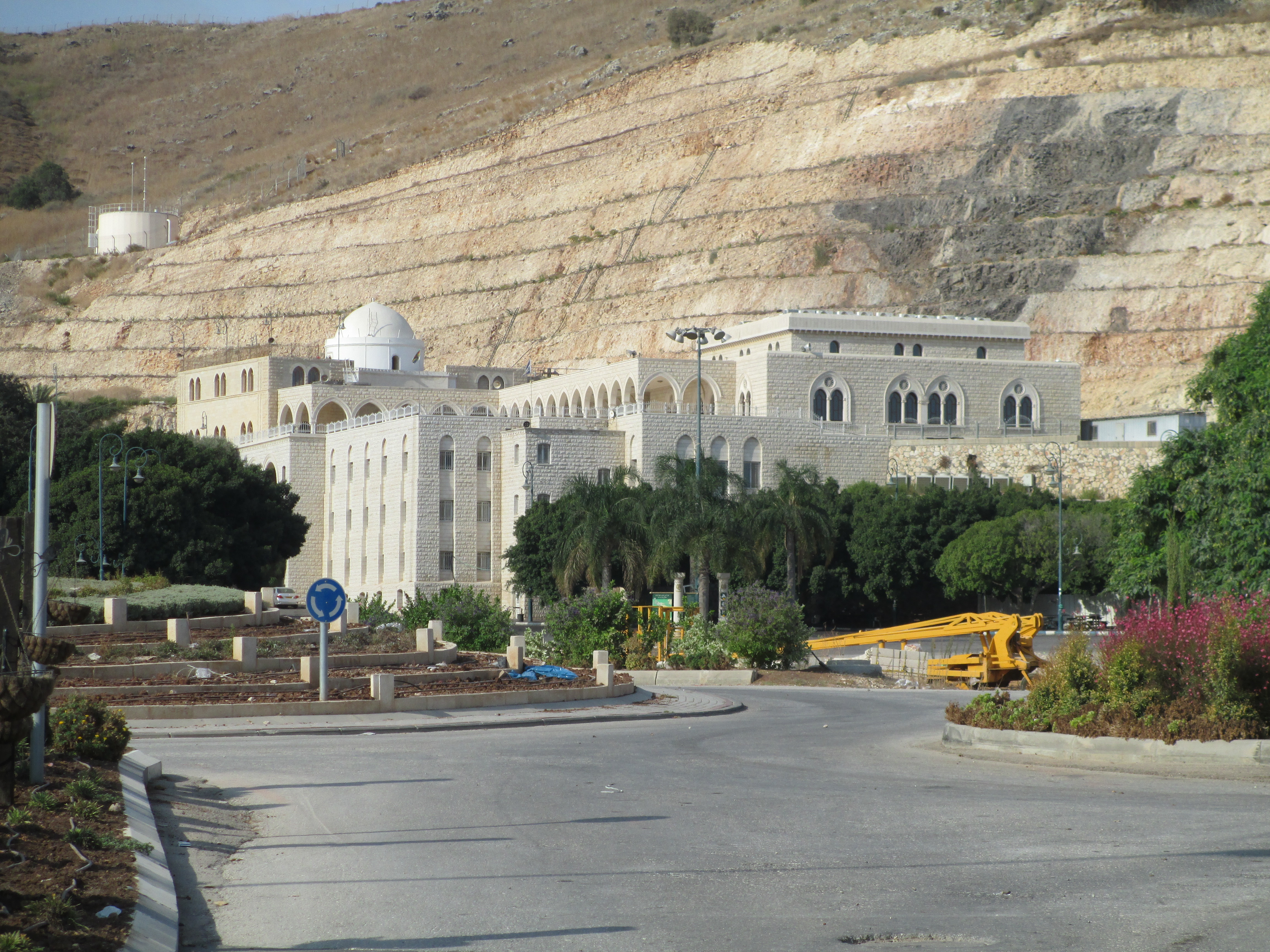 Nabi Shu'ayb